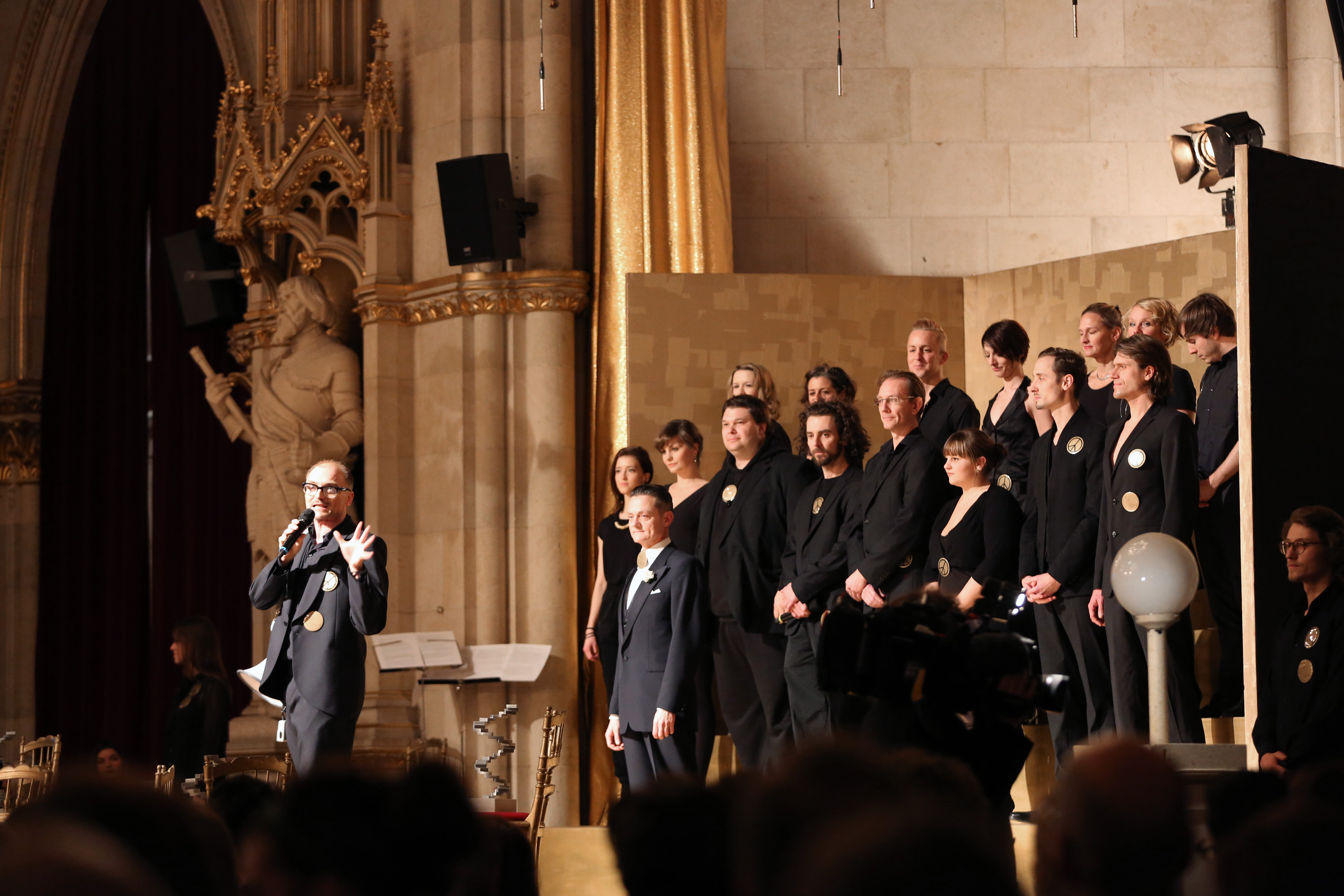 Markus Schleinzer directing the Austrian Film Awards 2015 at Rathaus, Vienna,Austria.